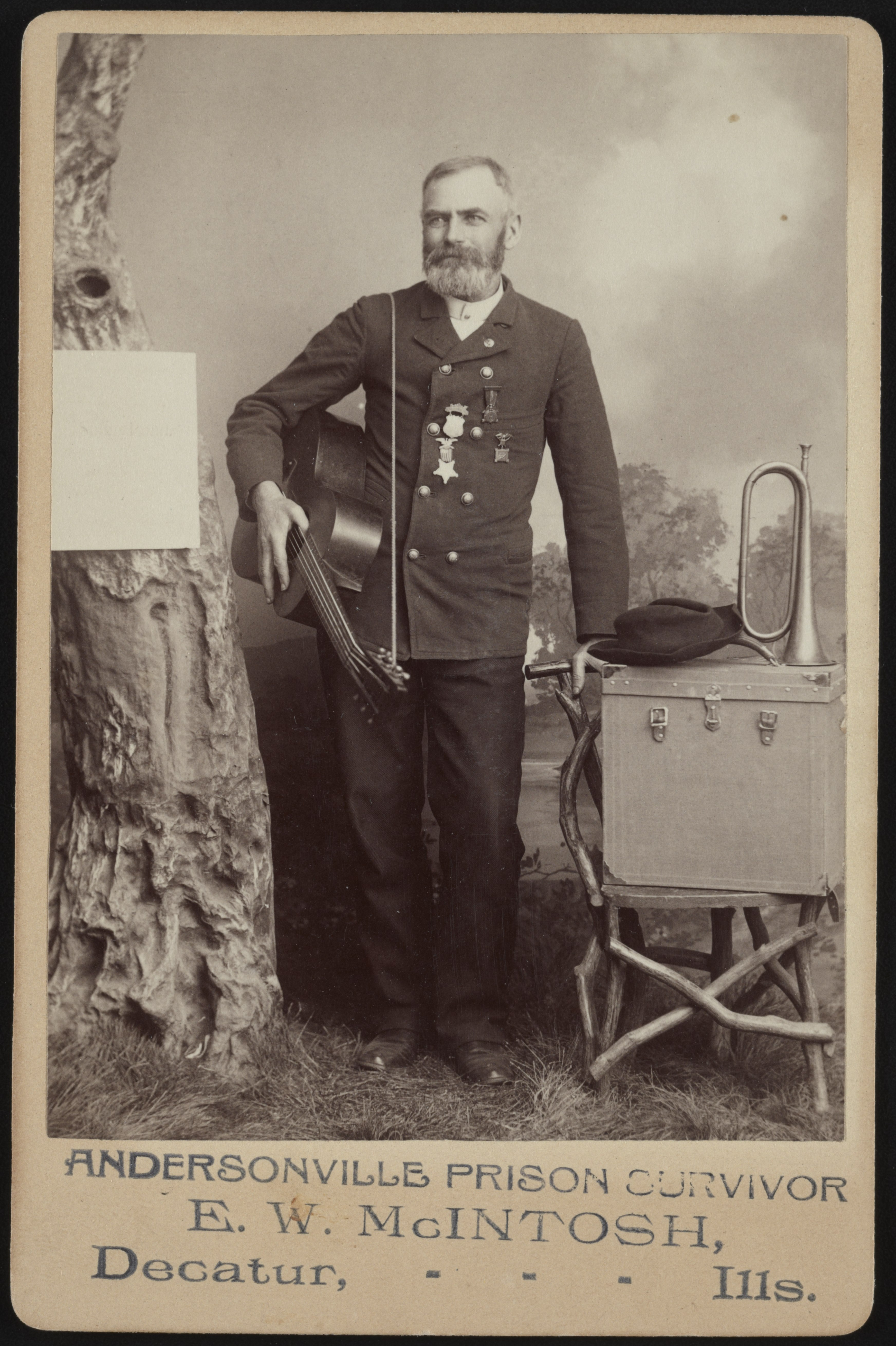 Title: Civil War veteran Eppenetus Washington McIntosh Abstract/medium: 1 photograph : albumen print on card mount ; sheet 14 x 10 cm, mount 17 x 11 cm (cabinet card format)